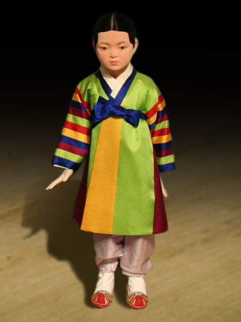 A model of young boy wearing obangjang durumagi or kkachi durumagi at National Folk Museum of Korea, Seoul, South Korea.